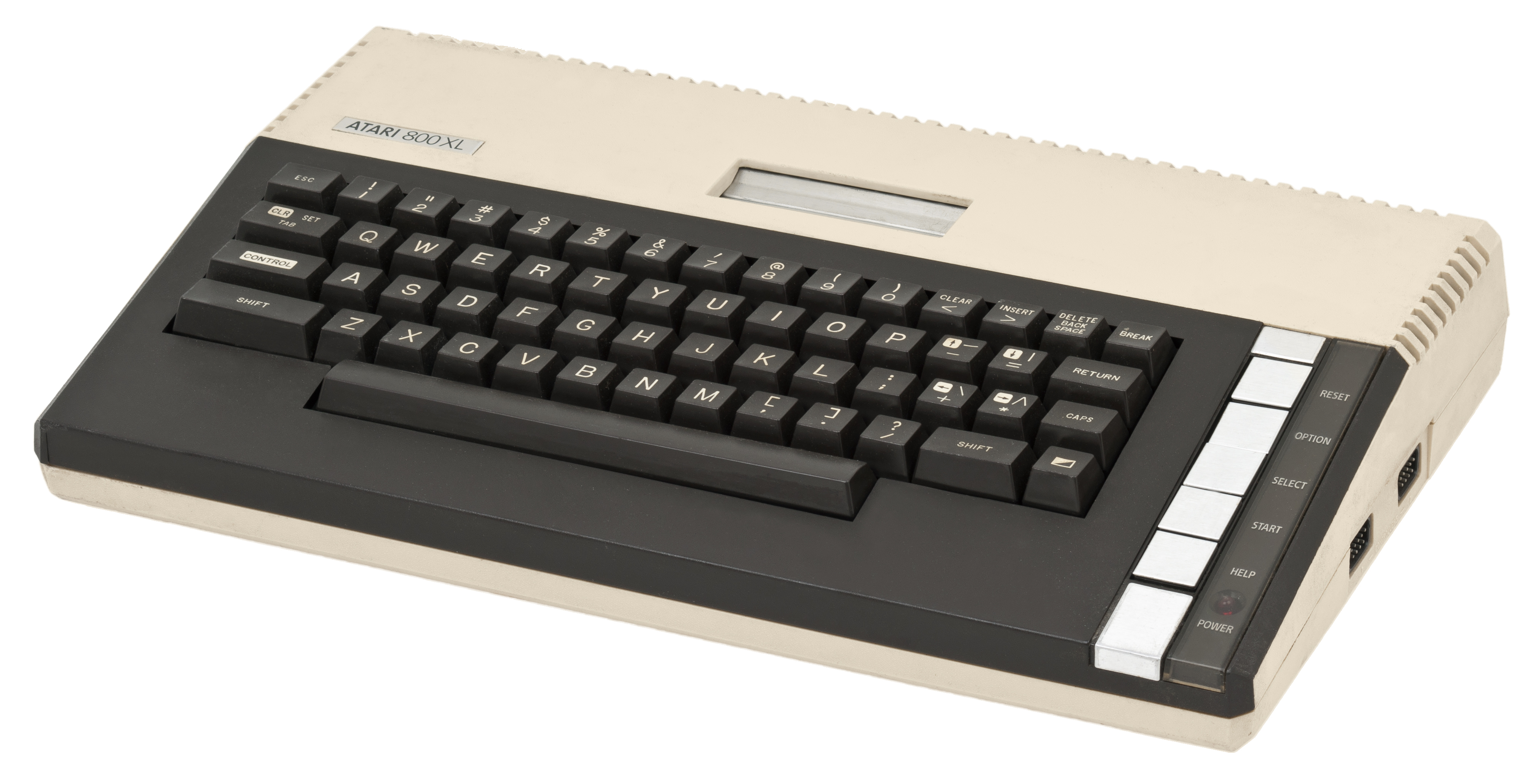 A dingy Atari 800XL, an 8-bit computer released by Atari in the early 1980s.